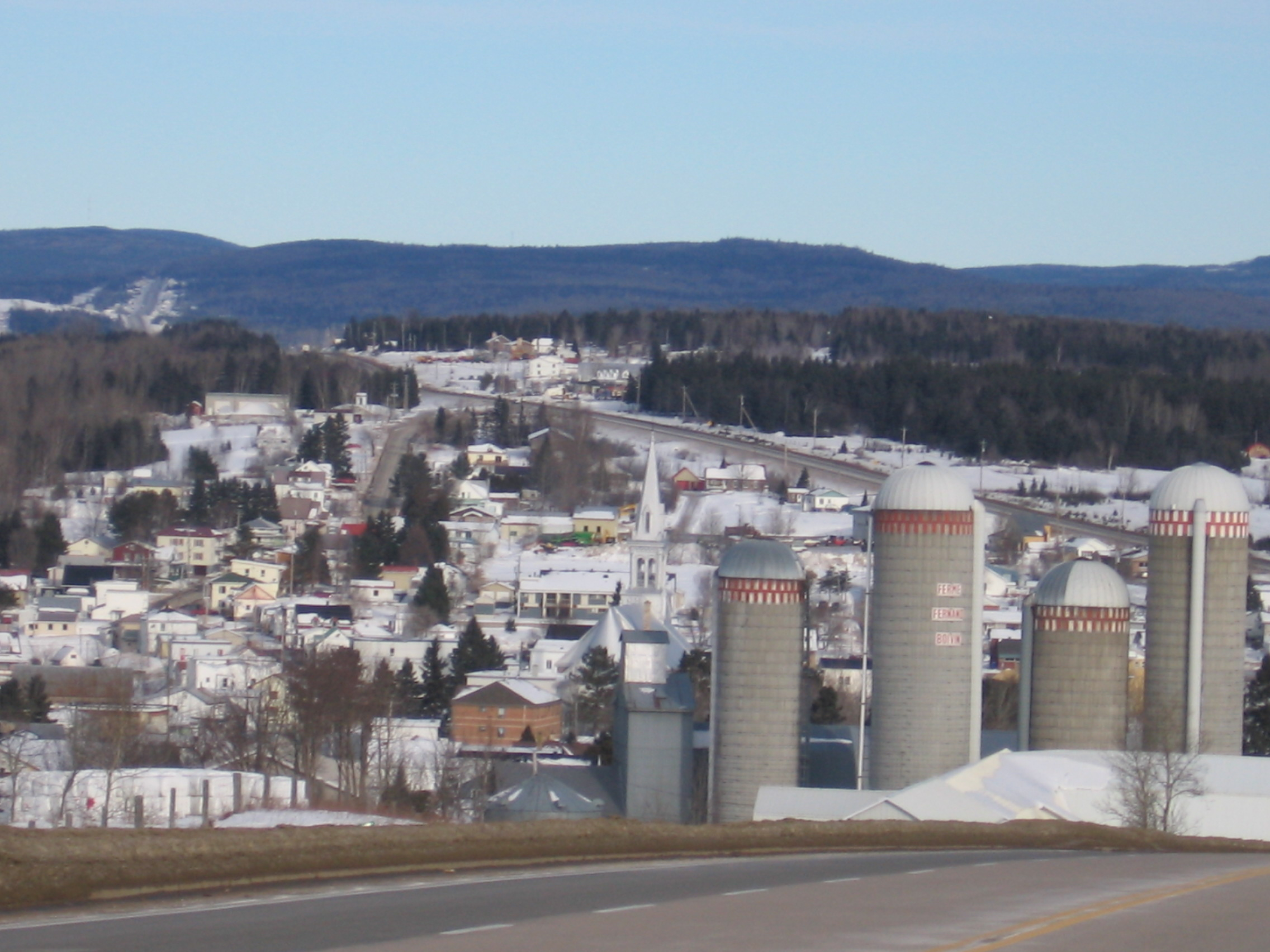 Saint-Tite-des-Caps